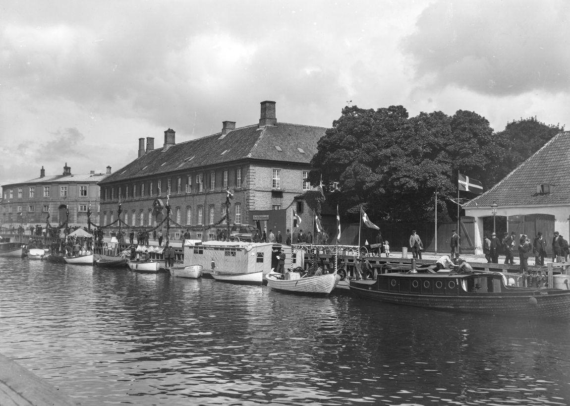 Frederiksholms Kanal with Staldmestergården in Copenhagen, Denmark.